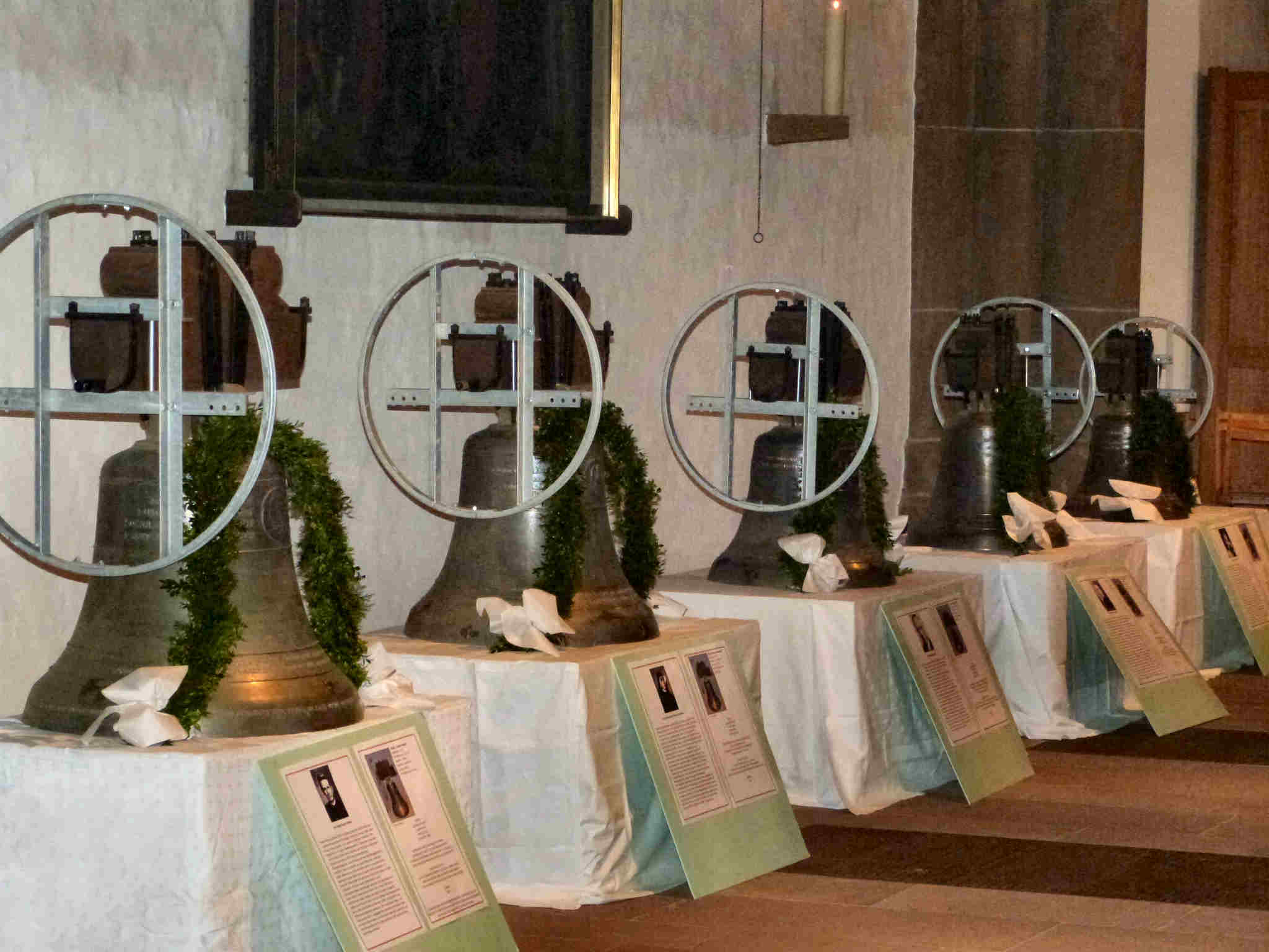 Glockengelaeute of new "Vierungsturm" of the Cathedral of St. Georgius, Minden and St. Peter. After the consecration on 18th December 2011 and placed on 19th December Mounted at his destination in the tower.